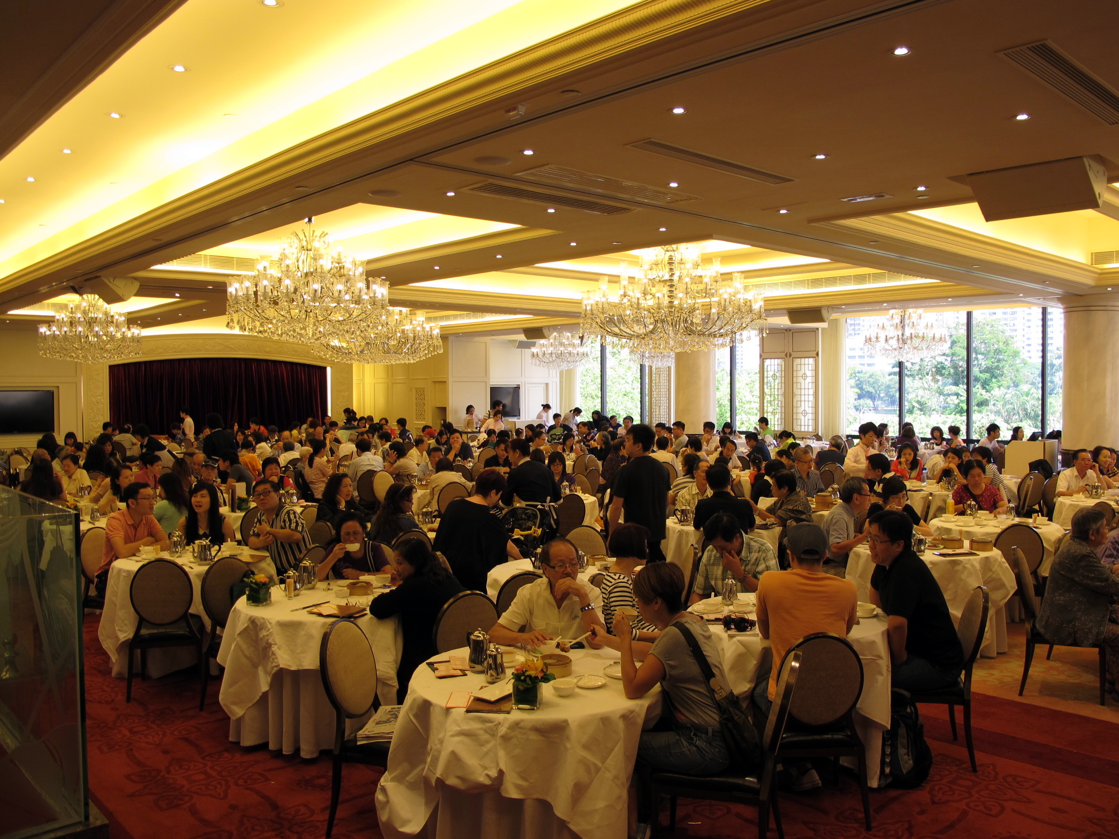 Maxim Palace in Sha Tin Town Hall